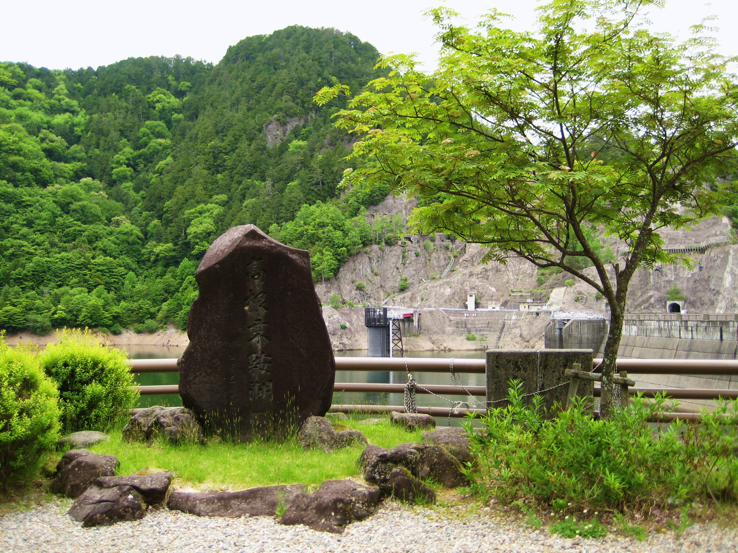 Takane I Dam lake monument.